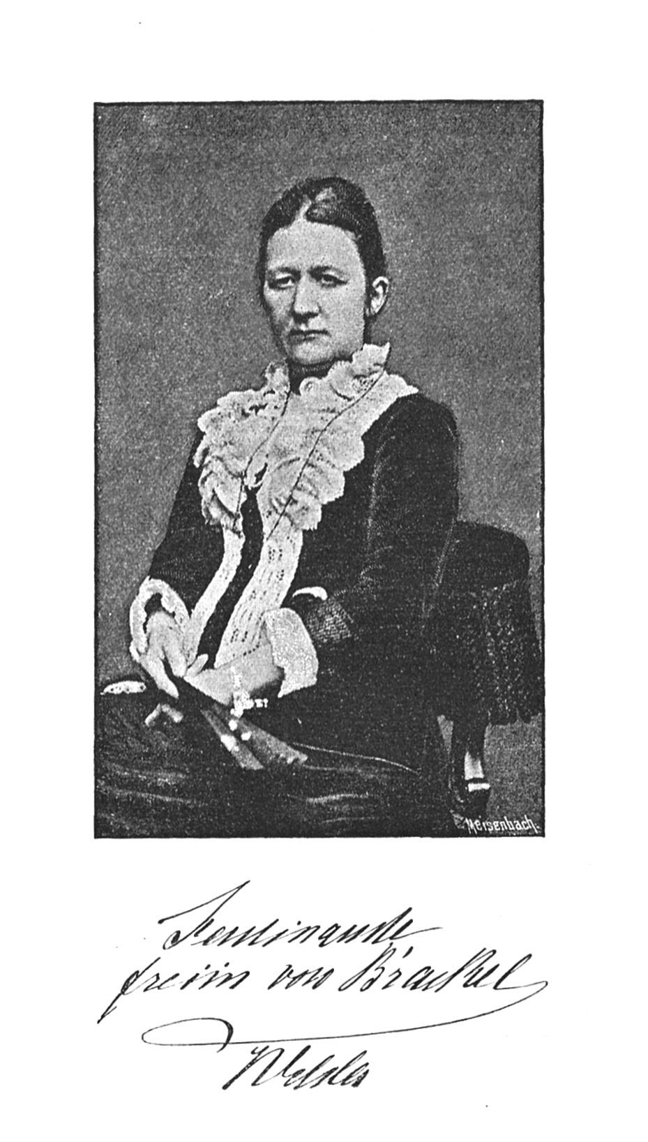 Portrait and signature of Ferdinande von Brackel